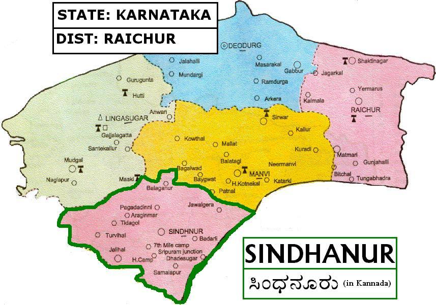 Map of Sindhanur Taluk in Raichur District, Karnataka, India.